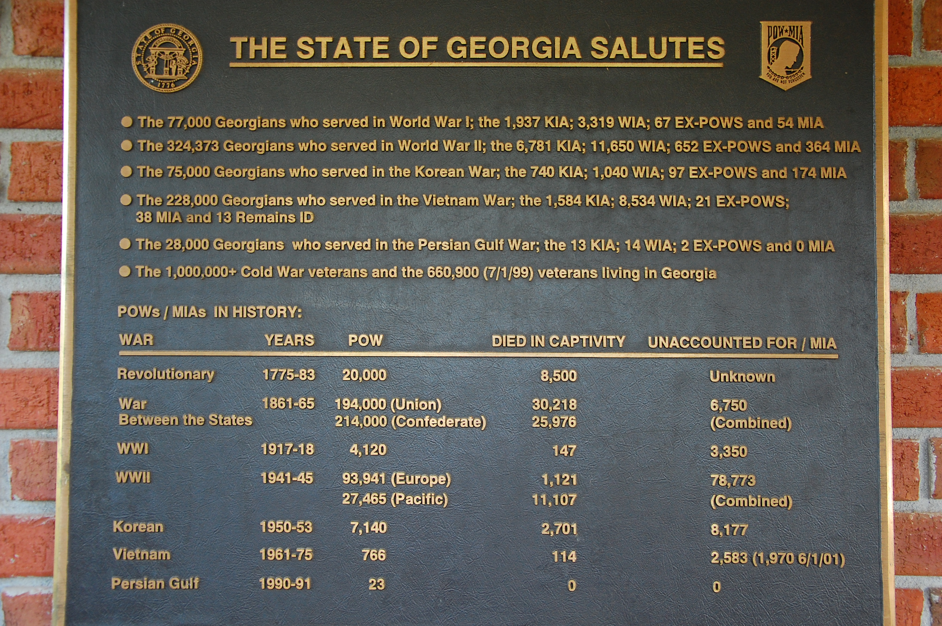 Plaque in Laurens County, Georgia rest stop along Interstate 16 saluting soldiers, particularly POW/MIA